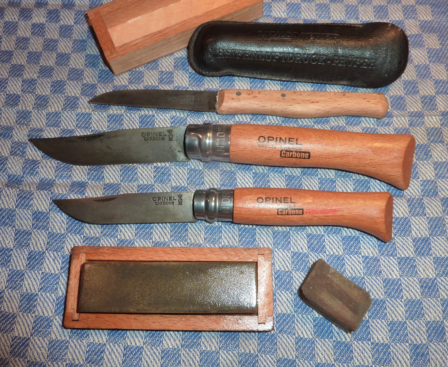 Knife maintenance. Three knives, from top to bottom: a near-mint Herder (German brand) kitchen knife, stainless steel blade; Opinel lock-blade pocketknives, sizes Nº 10 and Nº 08, both sporting a carbon steel blade. Beechwood (Fagus sylvatica) handles on all three of them. At the bottom a pocket grindstone, soaked in Ballistol utility oil, glued into a a beechwood box, plus a “stain eraser” for cleansing the carbon blades. At the top of the photo the lid (or top) of said grindstone box and a custom leather sleeve for the Opinel Nº 08.